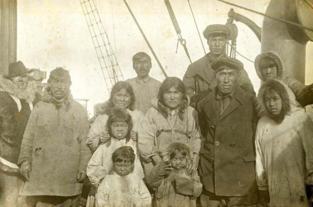 Wrangel Island inhabitants on board the Soviet gunboat «Krasnyj Oktiabr», 1924